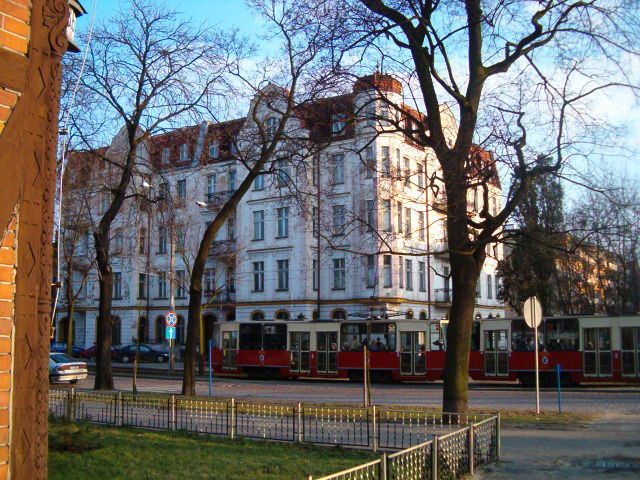 Toruń, Bydgoskie Przedmieście, house at 37/39 Bydgoska Str, former Gestapo seat.